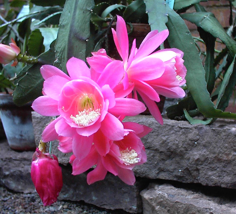 Disocactus phyllanthoides